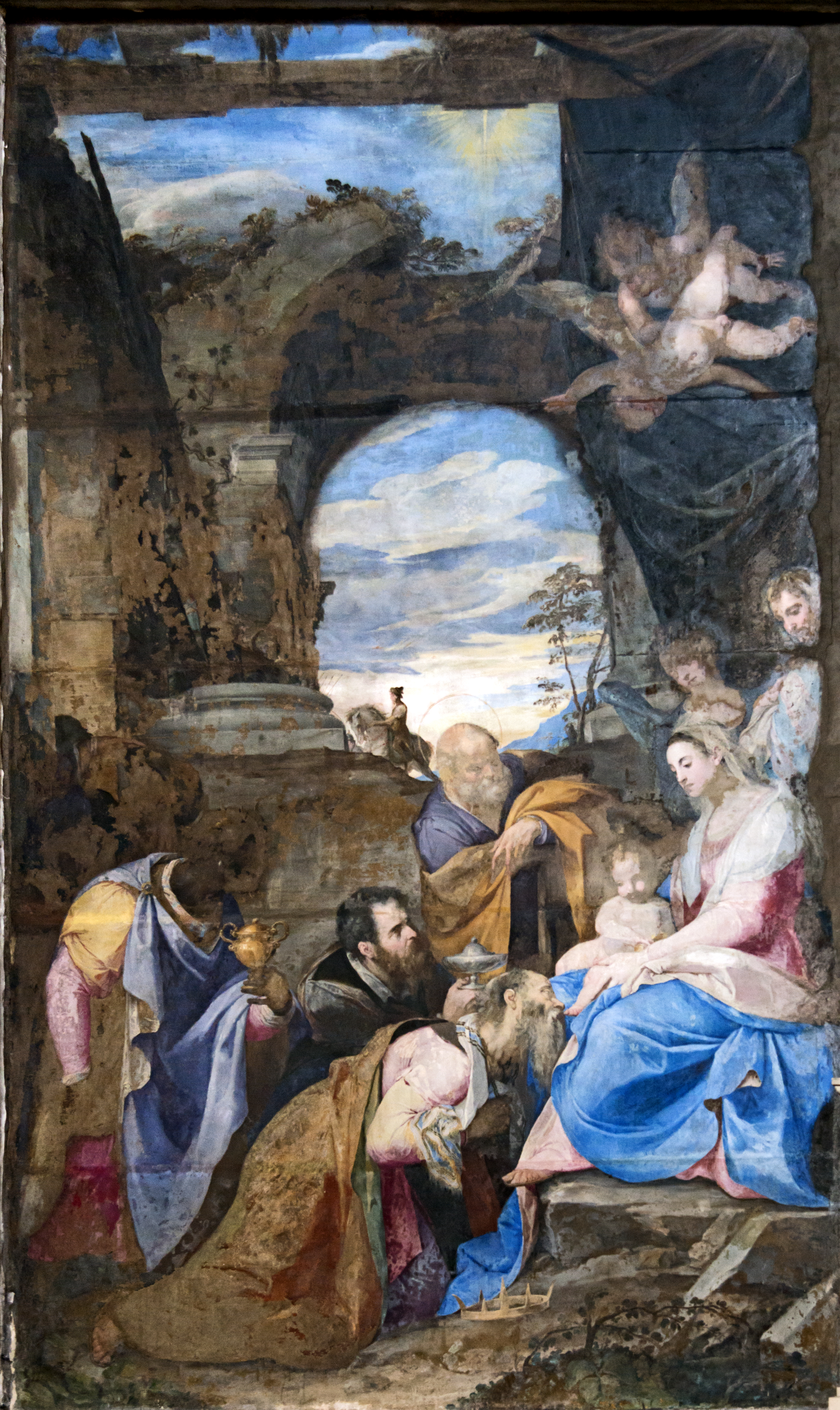 Cappella Grimani of San Francesco della Vigna (Venice). Hiht altar : "Adoration of the Magi". Oil on marble 1564.